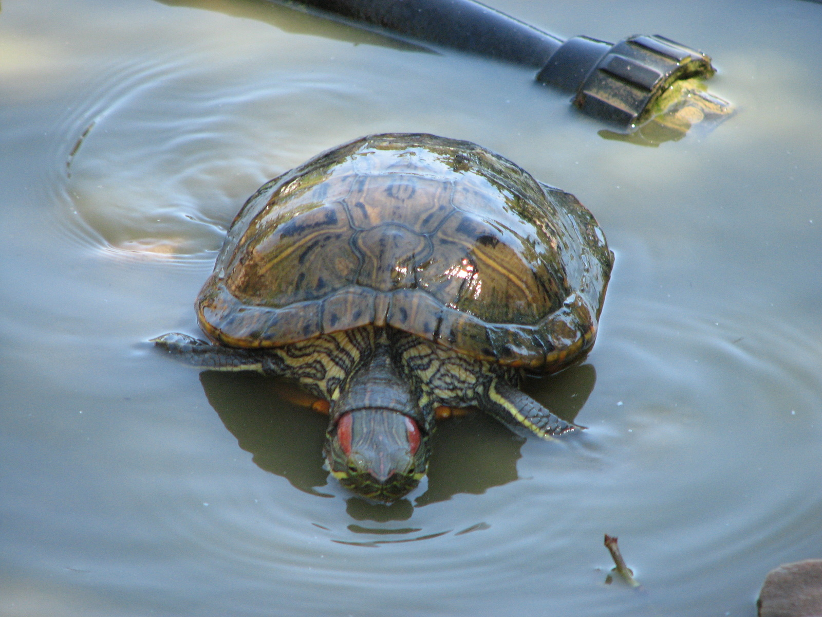 Terrapin - Lagos Zoo - The Algarve, Portugal